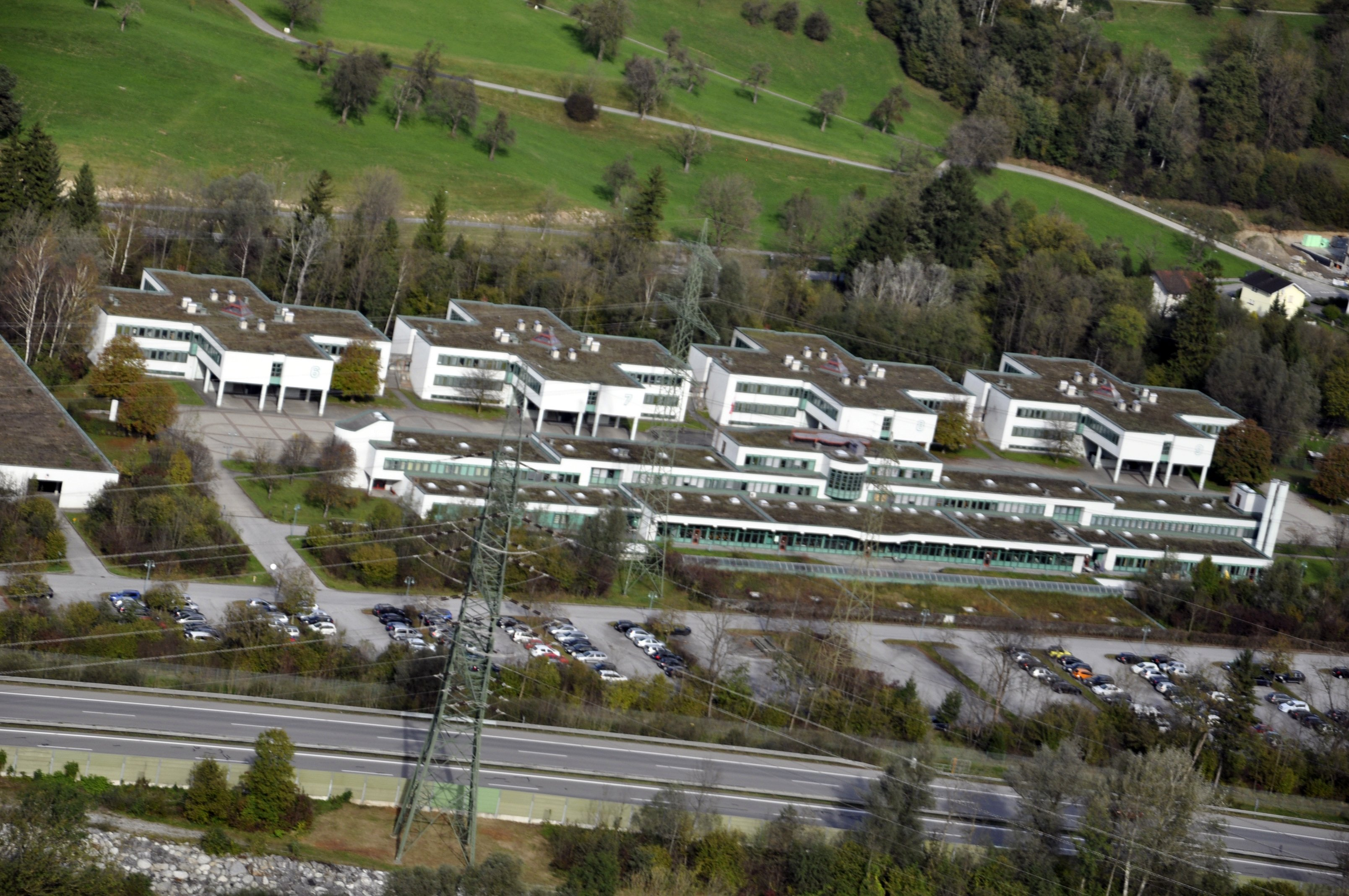 The Walgau barracks are barracks of the Austrian armed forces (Bundesheer) in Bludesch, Vorarlberg. This picture shows them in an aerial view in 2014.